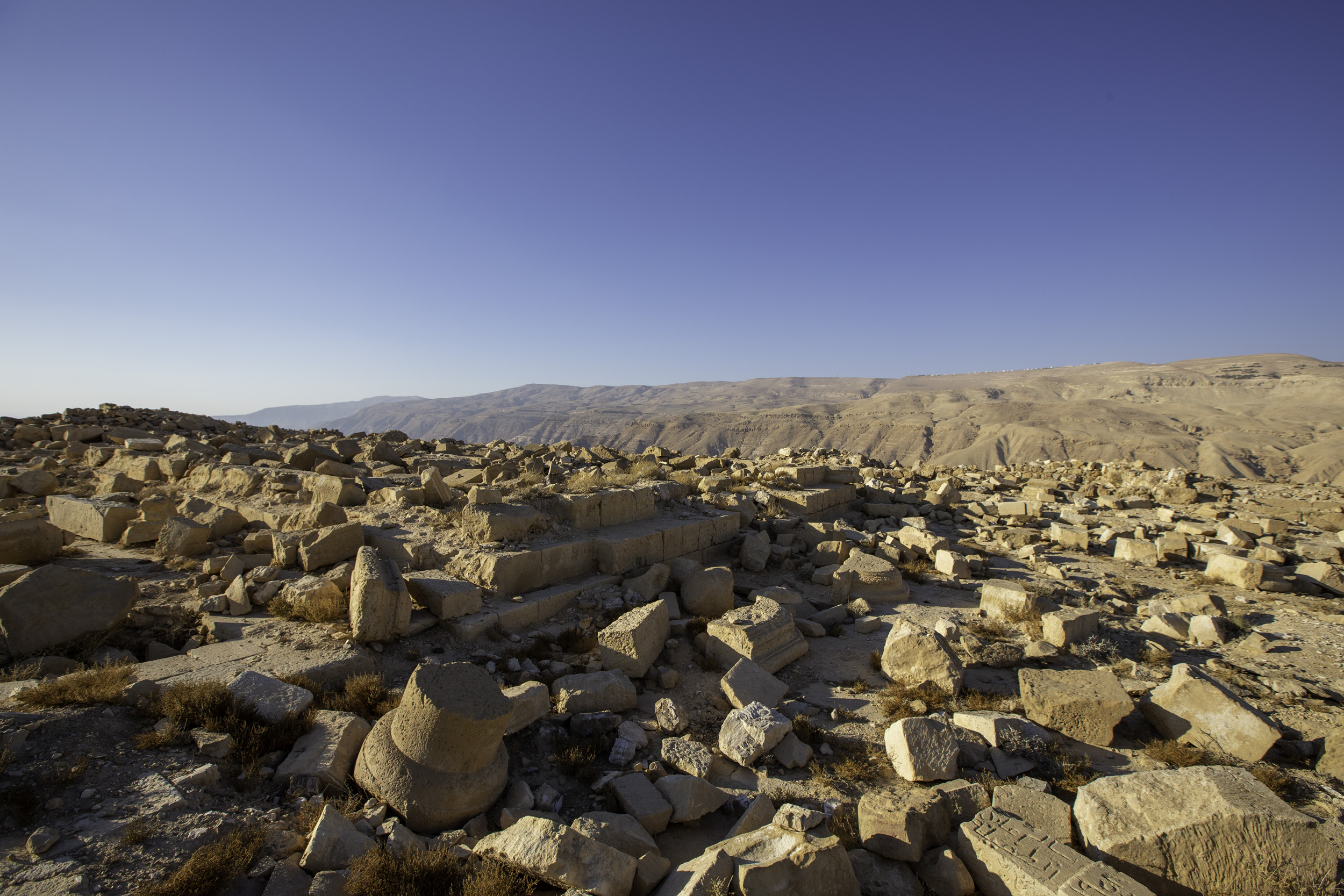 et-Tannur